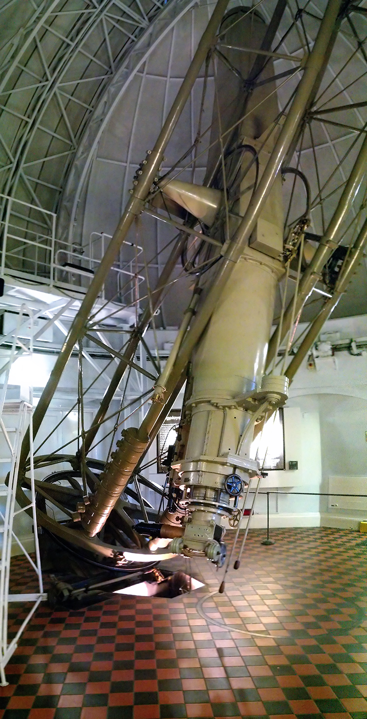 This is the largest conventional refracting telescope in Britain and 7th largest in the world. The lens has a diameter of 28 inches (72cm). Built by Sir Howard Grubb, the first observations were made in 1893 with an eyepiece giving a magnification of 670 times. The 28-inch telescope replaced a smaller refractor by Merz. The same mount was used but the dome was converted from a drum to an onion shape in order to make room for the larger instrument. The dome was originally made of steel and covered with papier mâché. Today the dome has a fibre-glass cover. The design of the mount and dome enable the telescope to be moved to view almost any part of the sky. The recent addition of a computer-aided guidance system makes it easier to use.